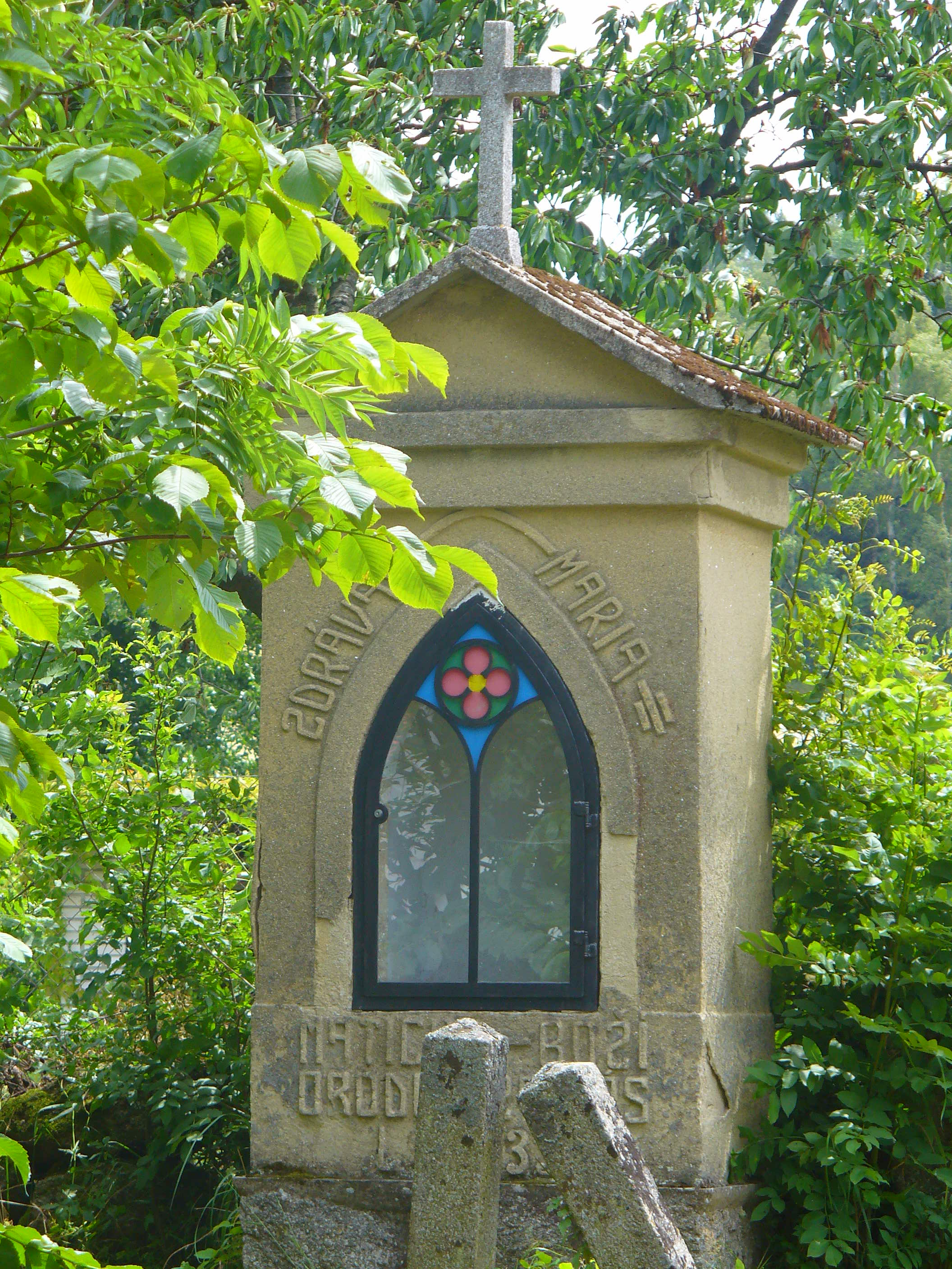 Small chapelle in Dobrá voda